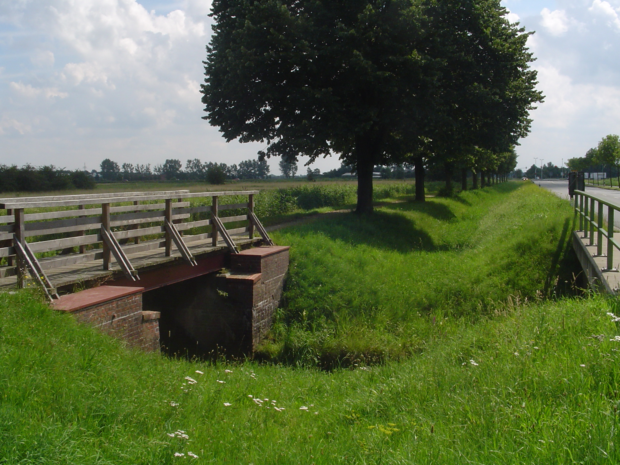 former line of Niederweserbahn near Bremerhaven-Wulsdorf, Germany